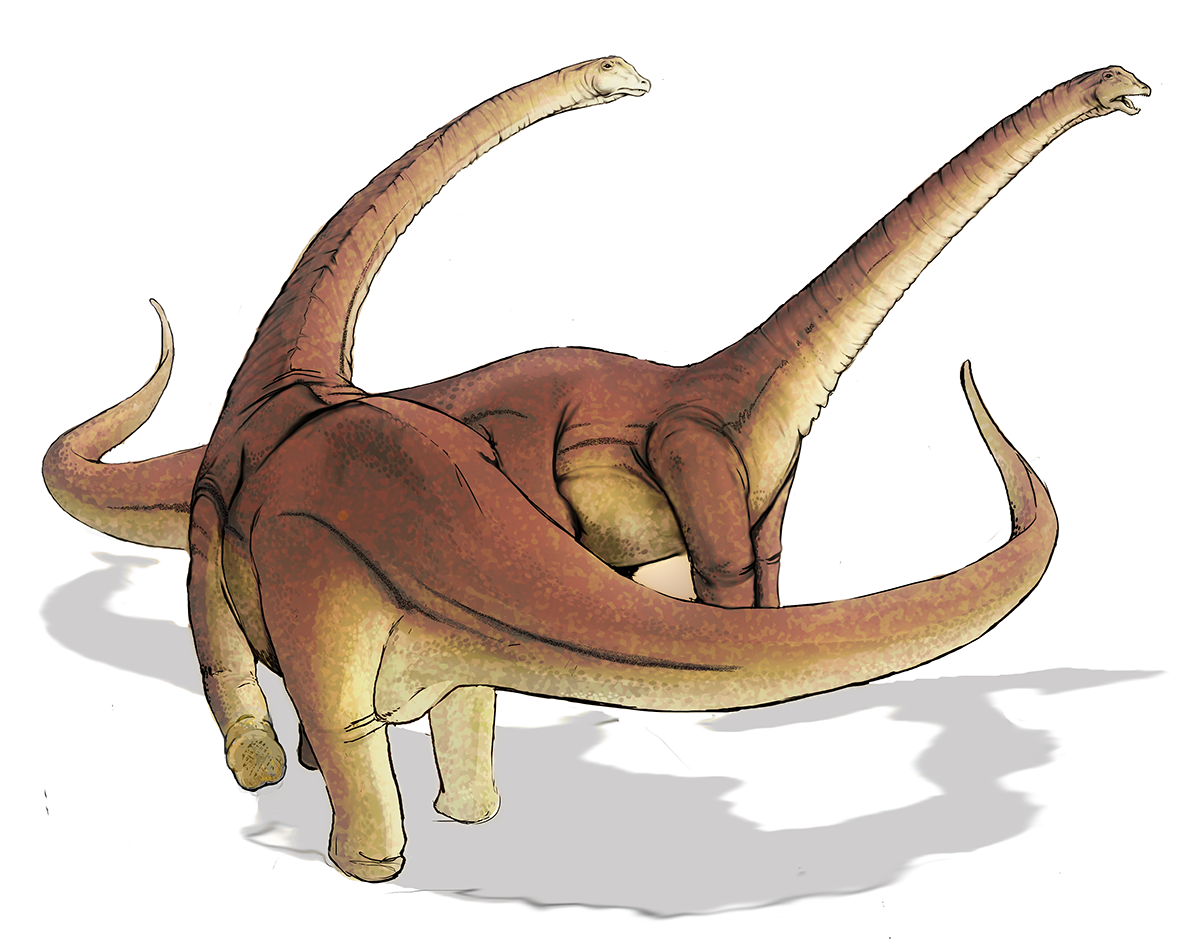 a speculative representation on how the Alamosaurus sanjuanensis could have been. there is no complete skeleton found yet.